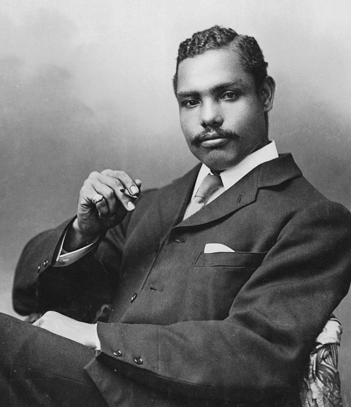 West Indies cricketer T Burton.